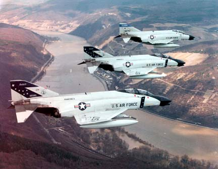 Two U.S. Air Force McDonnell Douglas F-4D Phantom II fighters from the 179th FIS, 148th FG, Minnesota Air National Guard, and one F-4D from the 194th FIS, 144th FIW, California ANG, flying over the Rhine River (near Bingen/Bingerbrück), Germany, during exercise "Creek Klaxon", in March 1987.